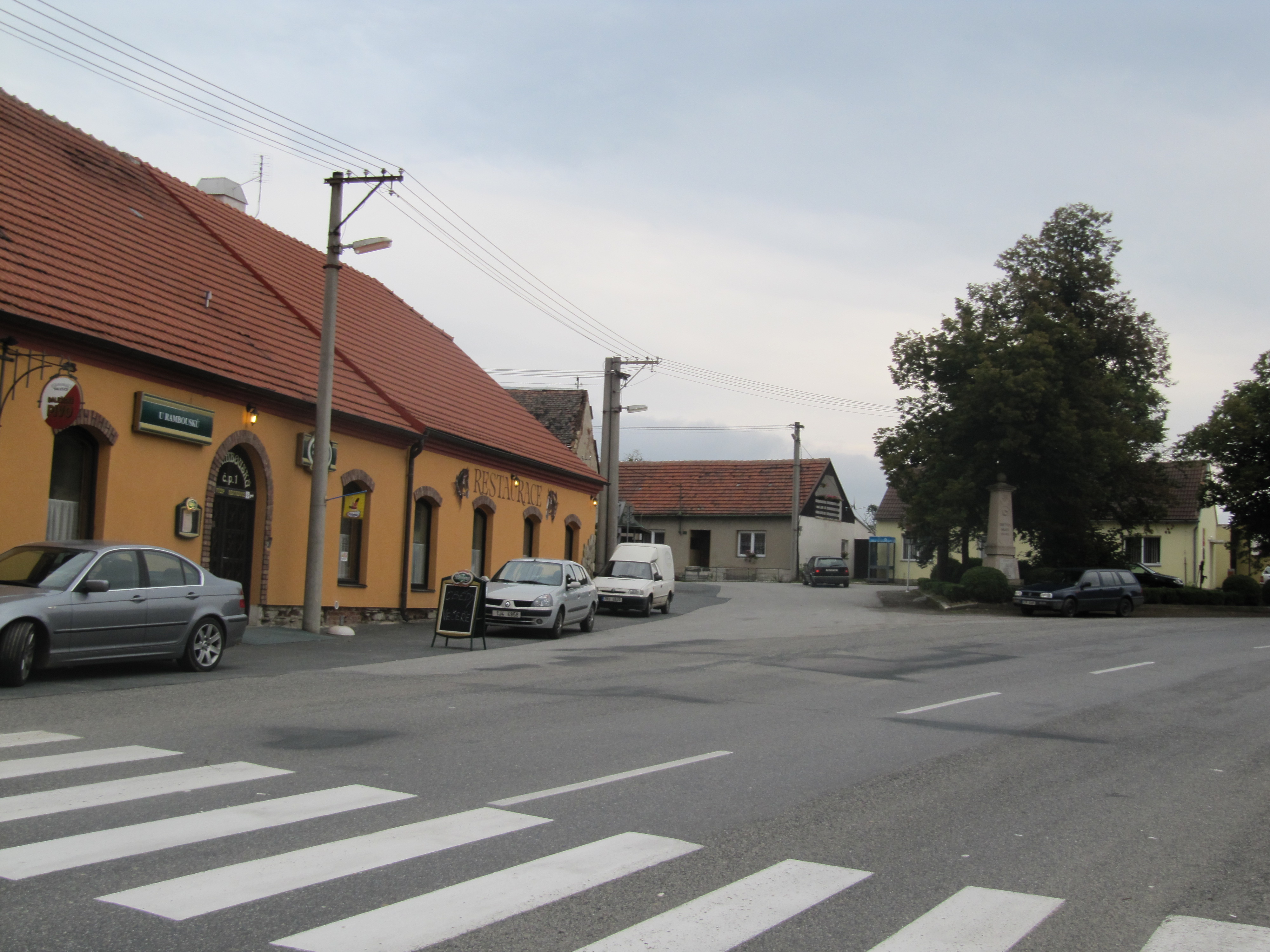 Rapotice in Třebíč District, Czech Republic.Pub and monument in the centre of village.